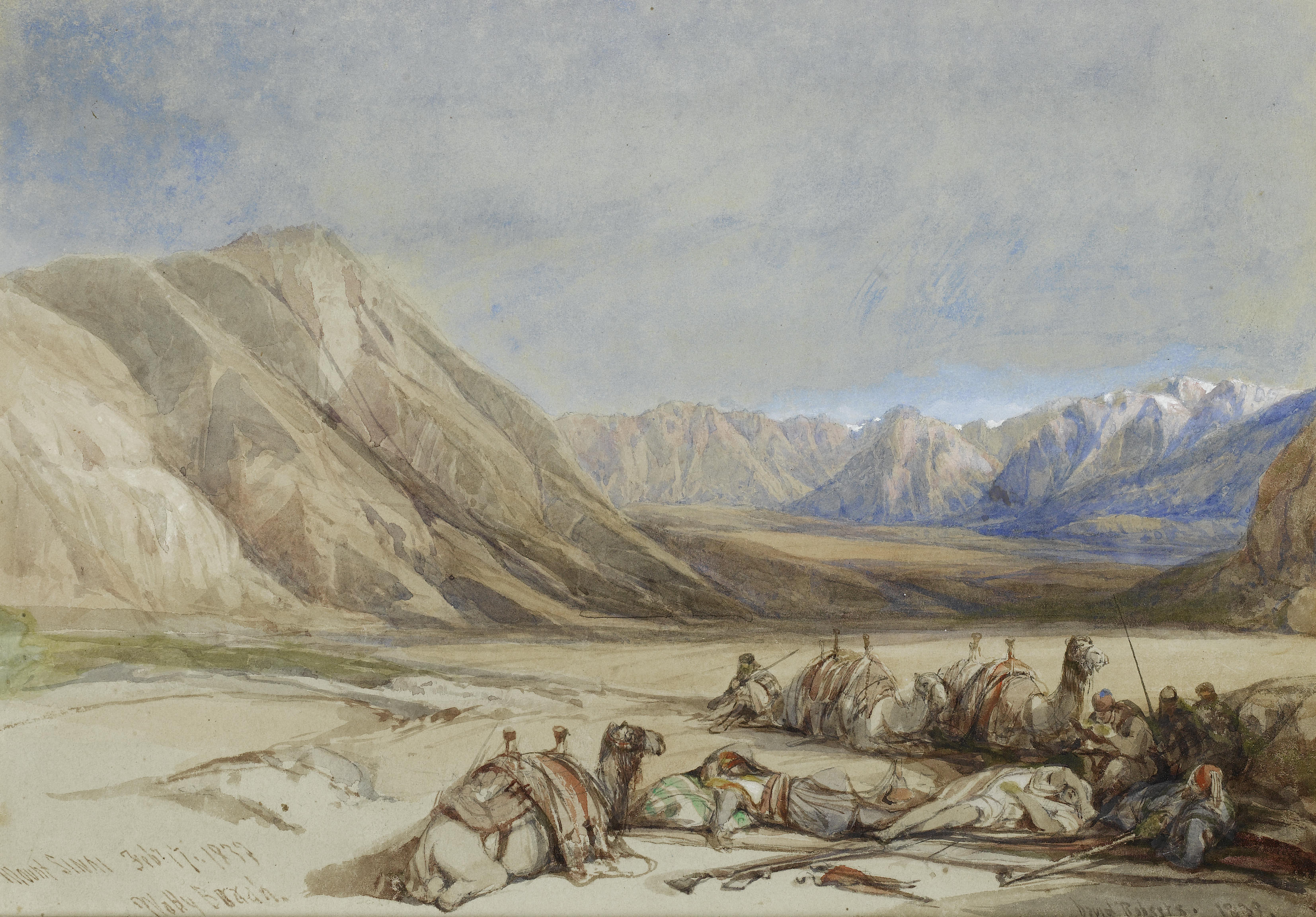 Mount Sinai. Signed and dated 'David Roberts. 1839.' (lower right), inscribed and dated 'Mount Sinai Feby 17. 1839/Waddy Barah.' (lower left); bears original label inscribed 'From Messrs Agnews' Spring Exhibition/14th Apr' on the reverse pencil, watercolour and bodycolour 24 x 34.2 cm